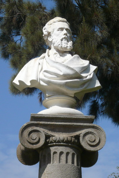 Víctor Balaguer statue, Ciutadella Park, Barcelona